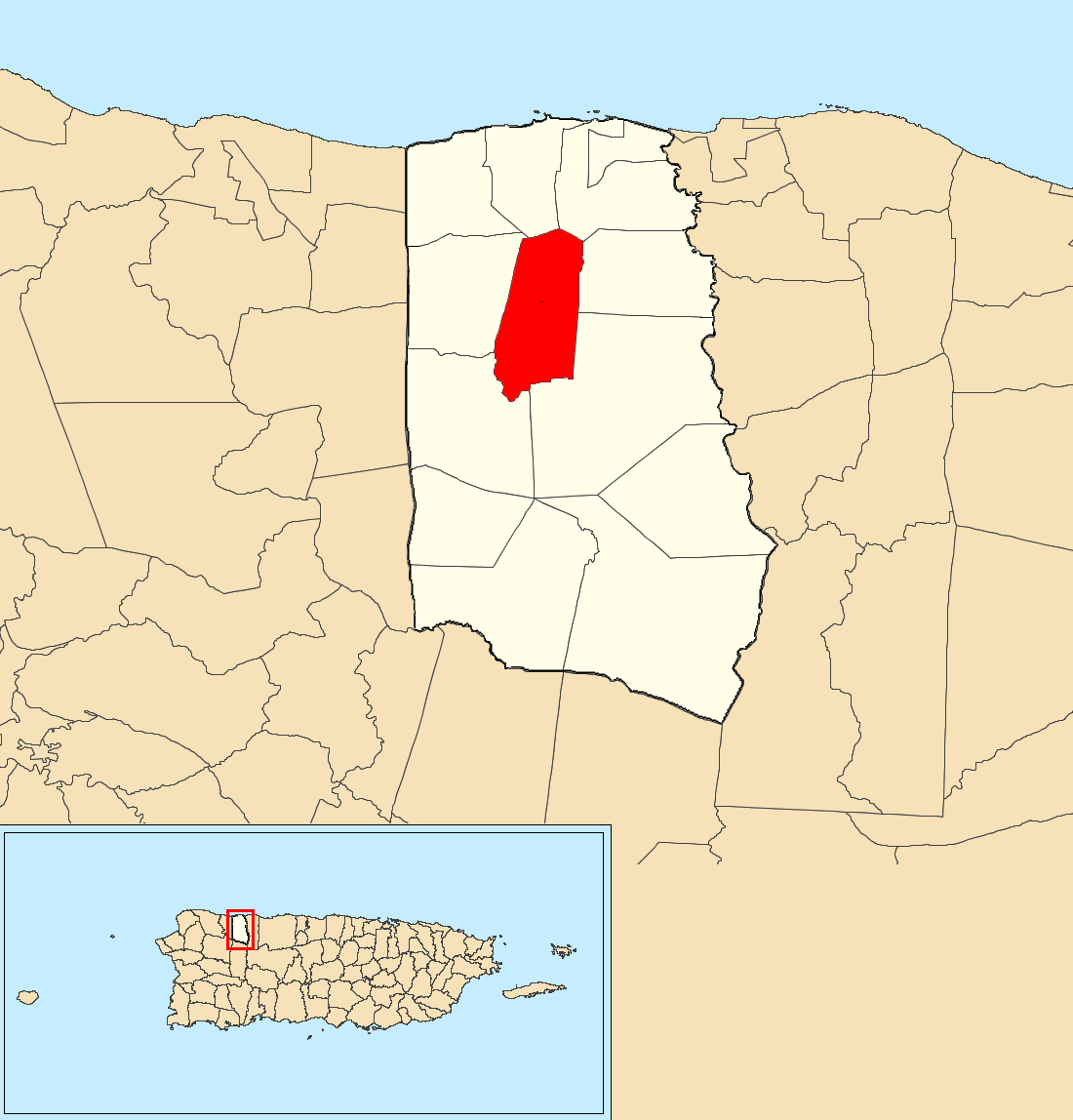 Ciénagas, Camuy, Puerto Rico locator map